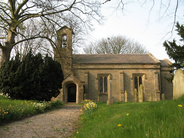 Church of St John the Evangelist, Skipton on Swale A rather plain little parish church of 1848, dismissed in two lines by Pevsner [Buildings of England - The North Riding].